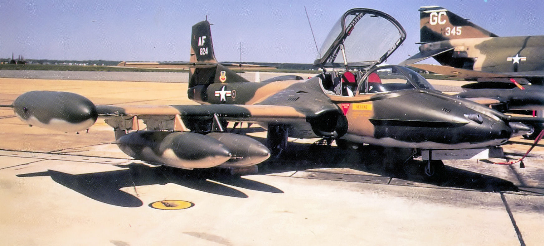 Cessna A-37B Dragonfly 68-68-10824 603d Special Operations Squadron 1st SOW Hurlburt Field FL May 1970 Sold to South Vietnamese Air Force, 1972.